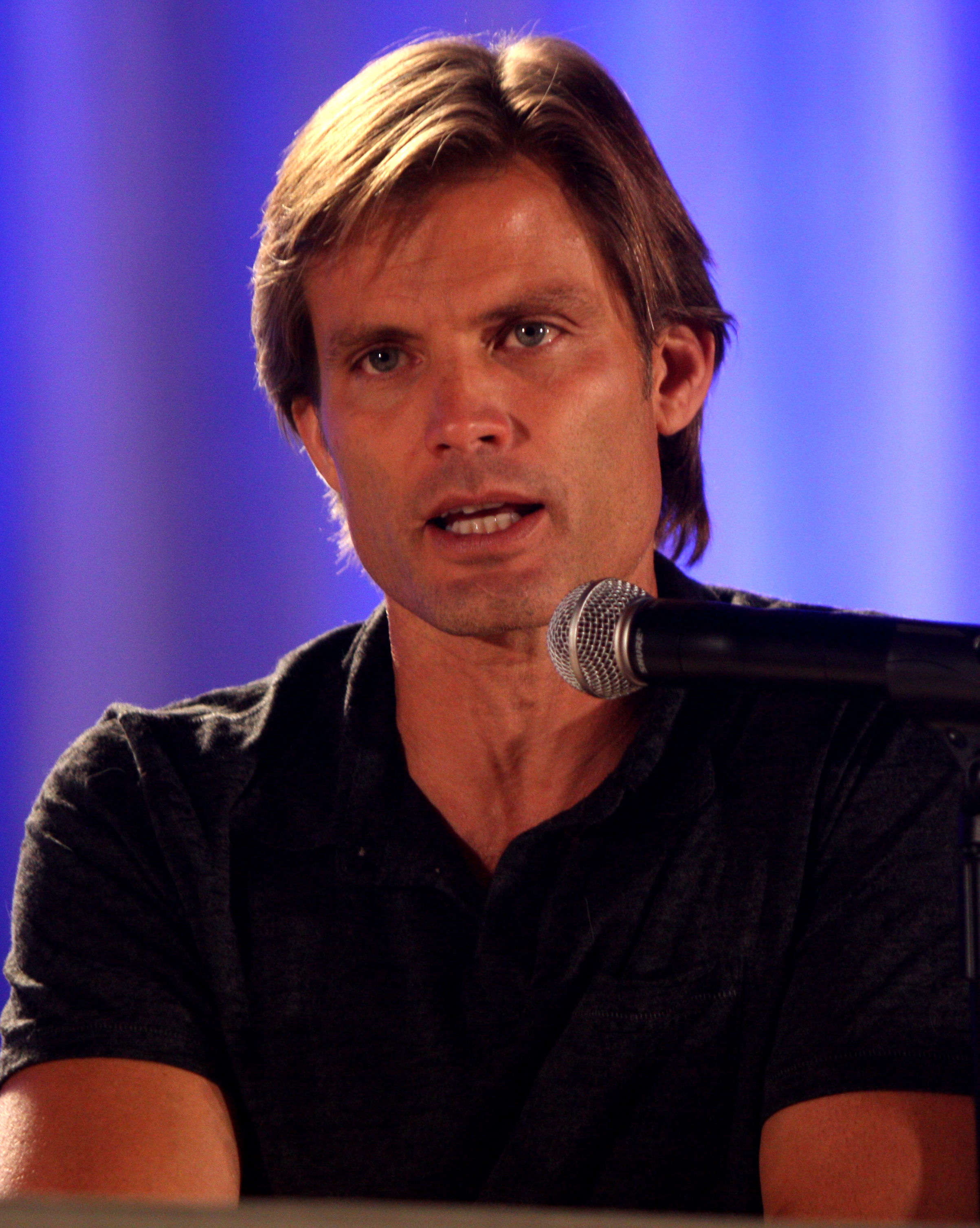 Casper Van Dien at the 2012 Phoenix Comicon in Phoenix, Arizona.